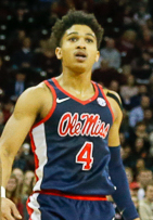 Photo by Chris Gillespie